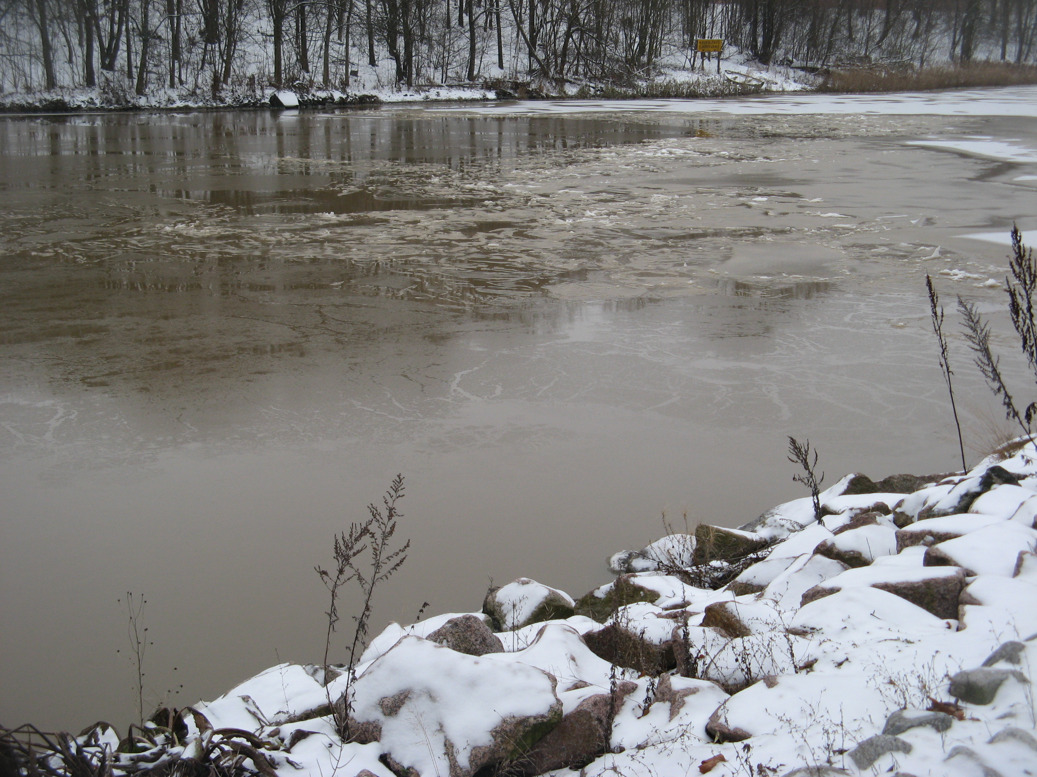 Ice forming during snow fall (Aura river 2010).